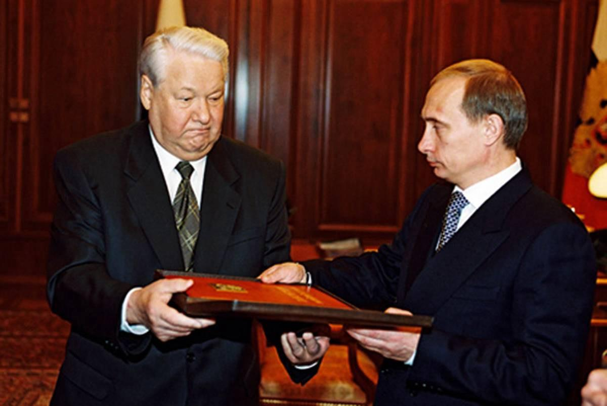 THE KREMLIN, MOSCOW. President Boris Yeltsin handing over the “presidential” copy of the Russian constitution to Vladimir Putin.